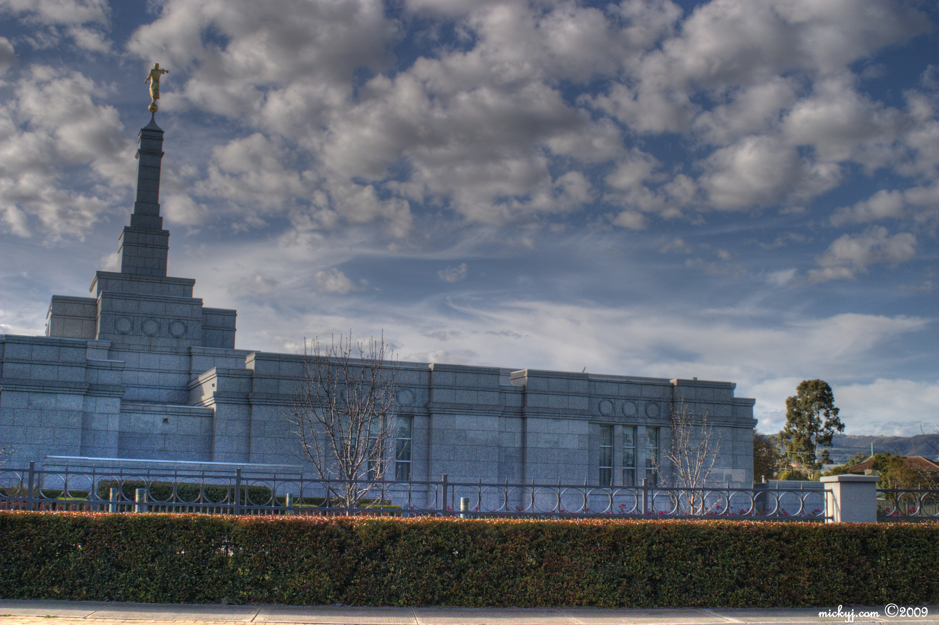 The Adelaide Australia Temple, the 89th operating temple of The Church of Jesus Christ of Latter-day Saints.